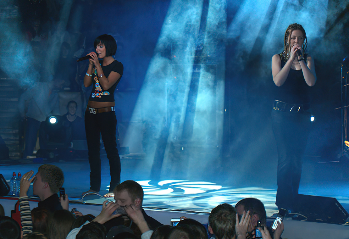 t.A.T.u. in Kirov